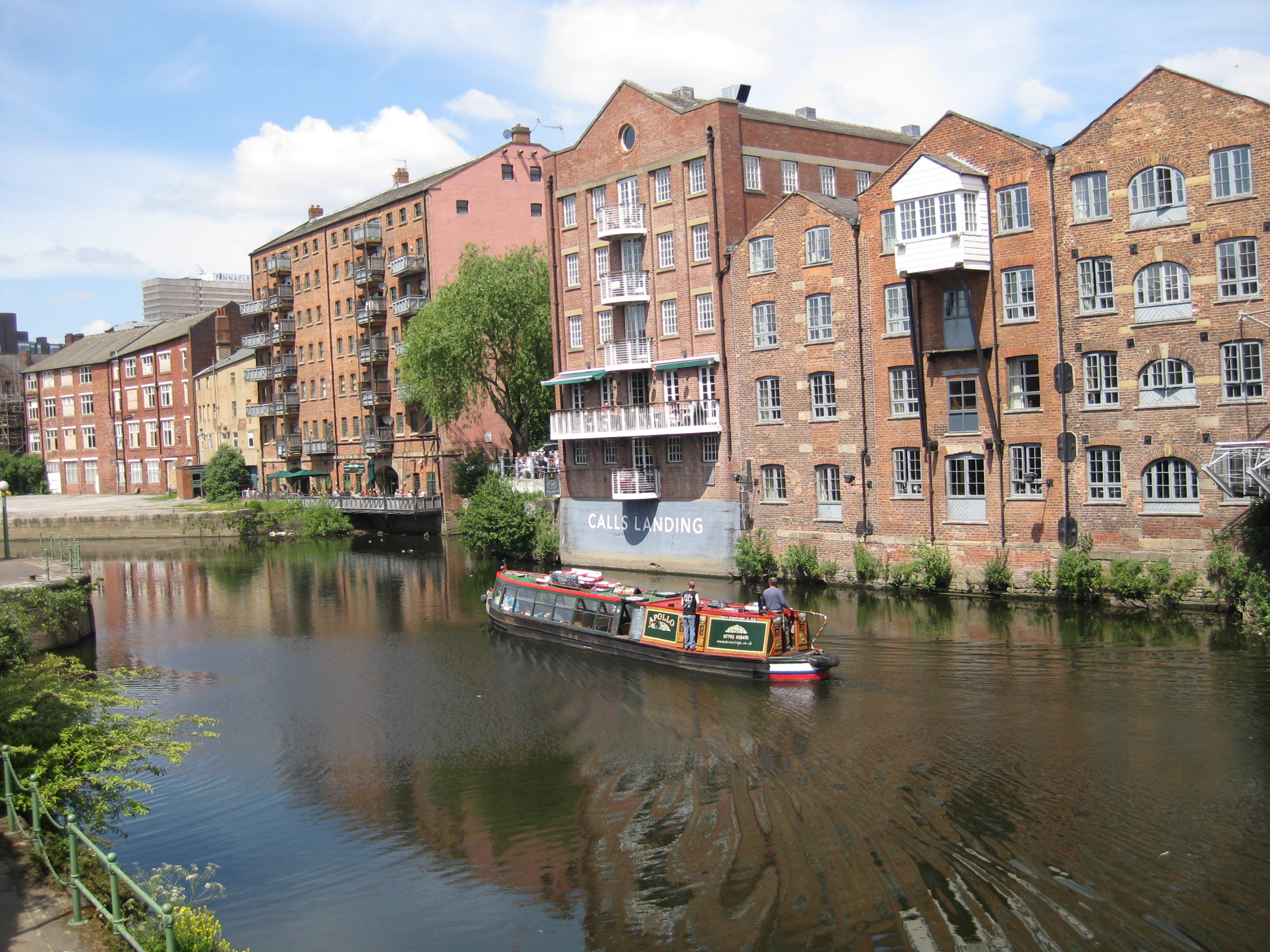 Calls Landing and (further down) Calls Wharf, River Aire, Leeds and a narrow boat